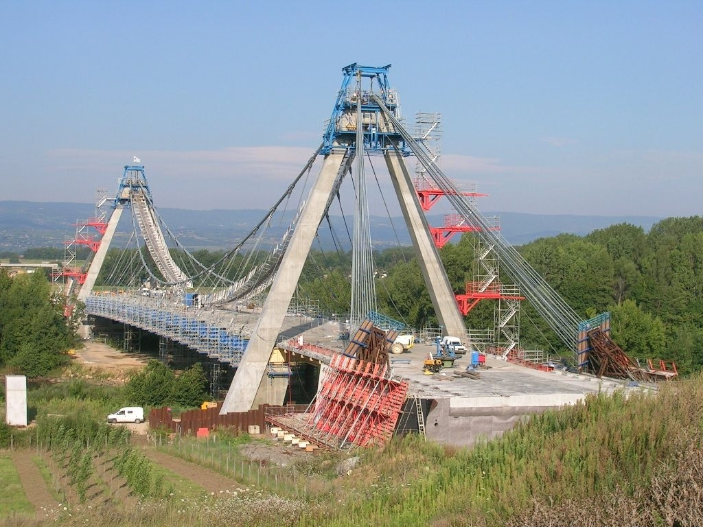 Saint-Just-Saint-Rambert bridge in France. 2007_08_15